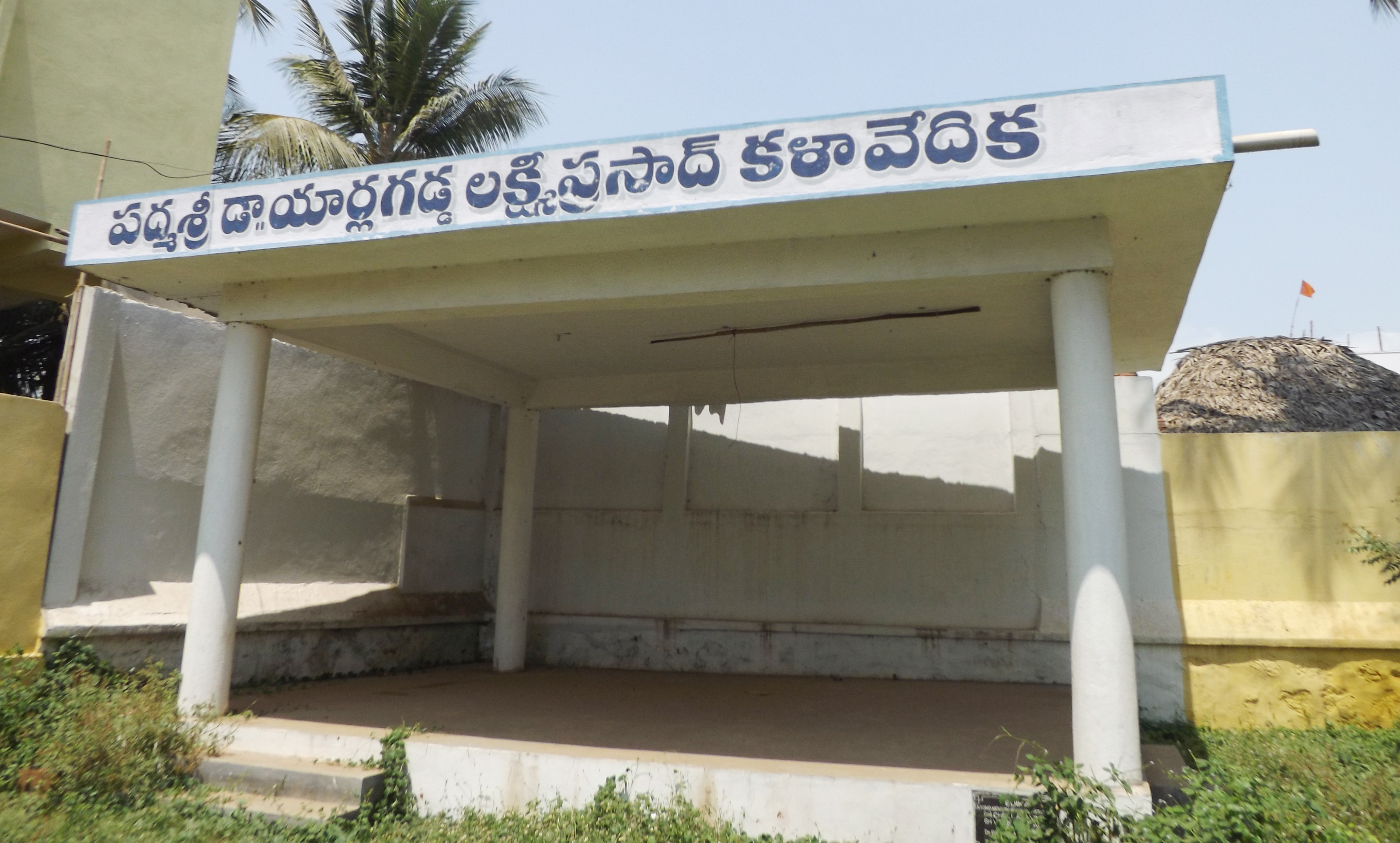 Suryaraya Vidyananda Library of Pithapuram - Andhrapradesh